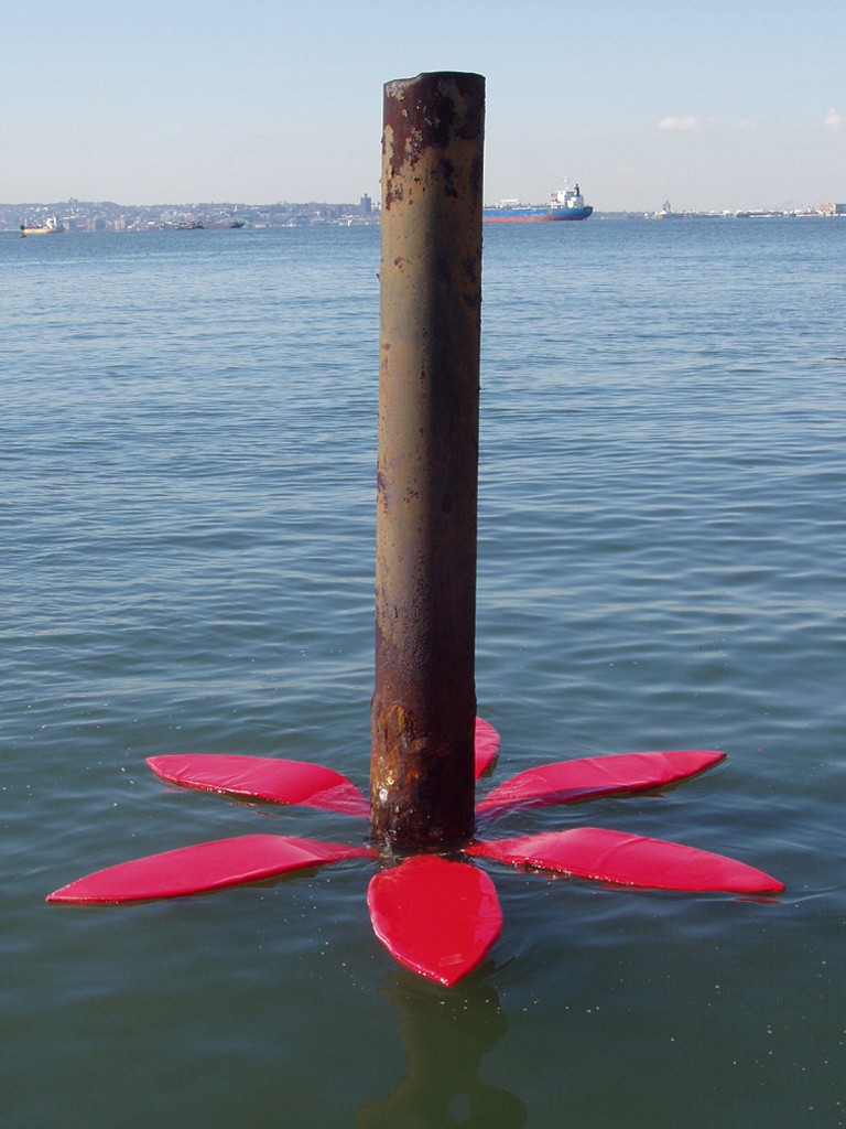 Stacy Levy's Tide Flowers at the Hudson River Park